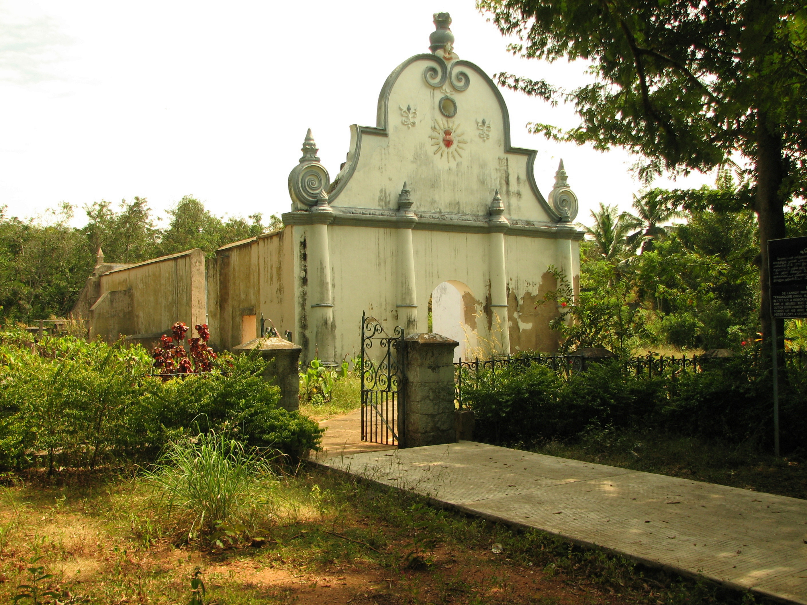 Self-made photograph ; Author's Name : Infocaster